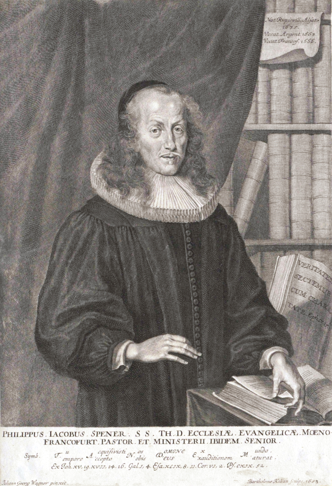 Philipp Jacob Spener (1635-1705), German theologian